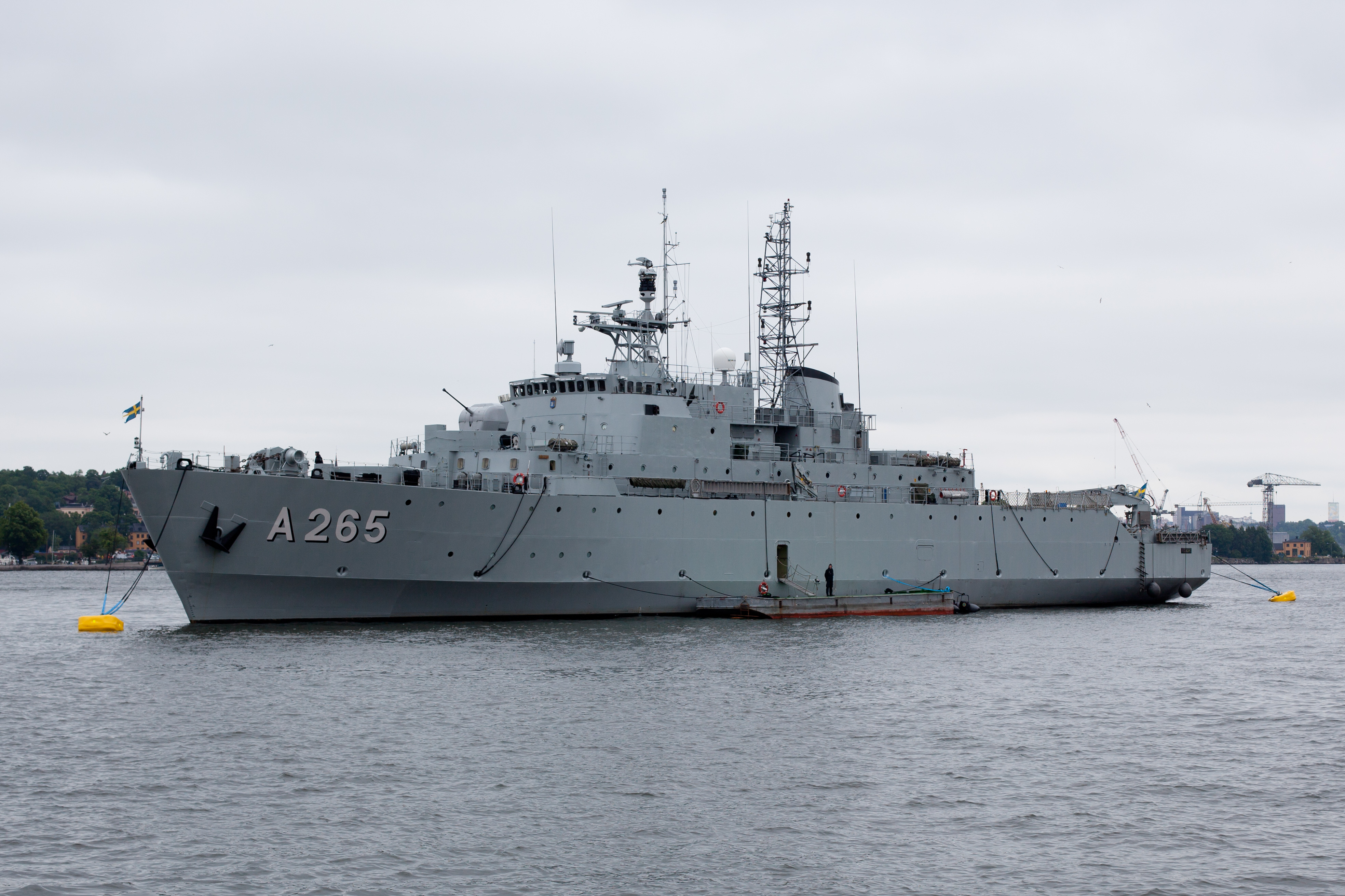 HMS Visborg (A265)